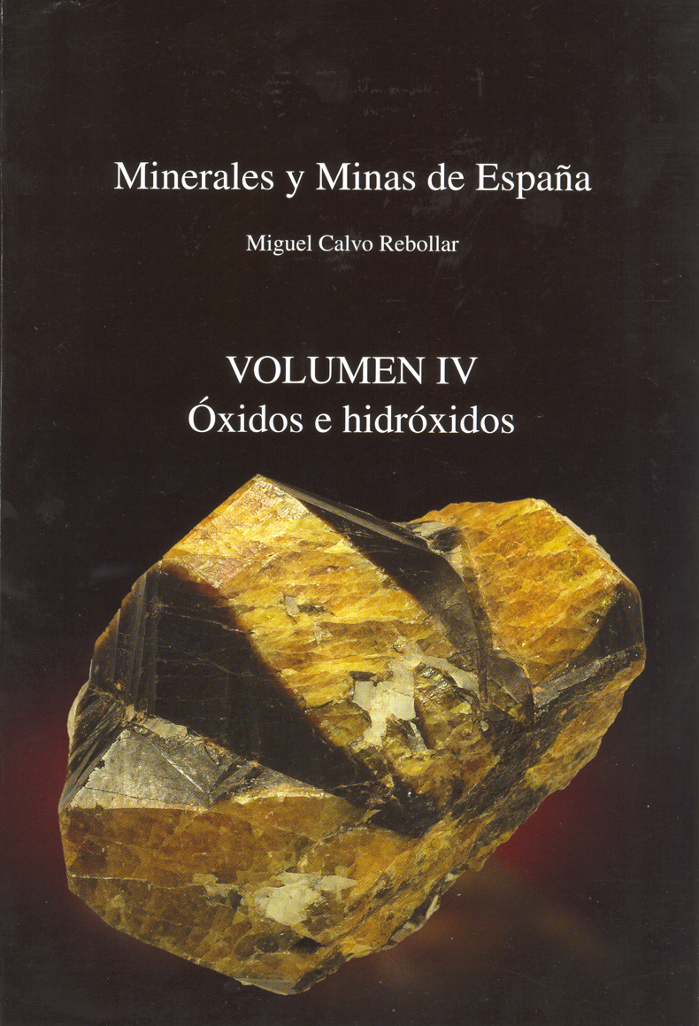 Cassiterite image in the dustjacket of Miguel Calvo (2009). Minerales y Minas de España, vol. 4 .